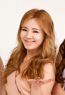 Kim Hyo-yeon, member of South Korean pop group Girls' Generation